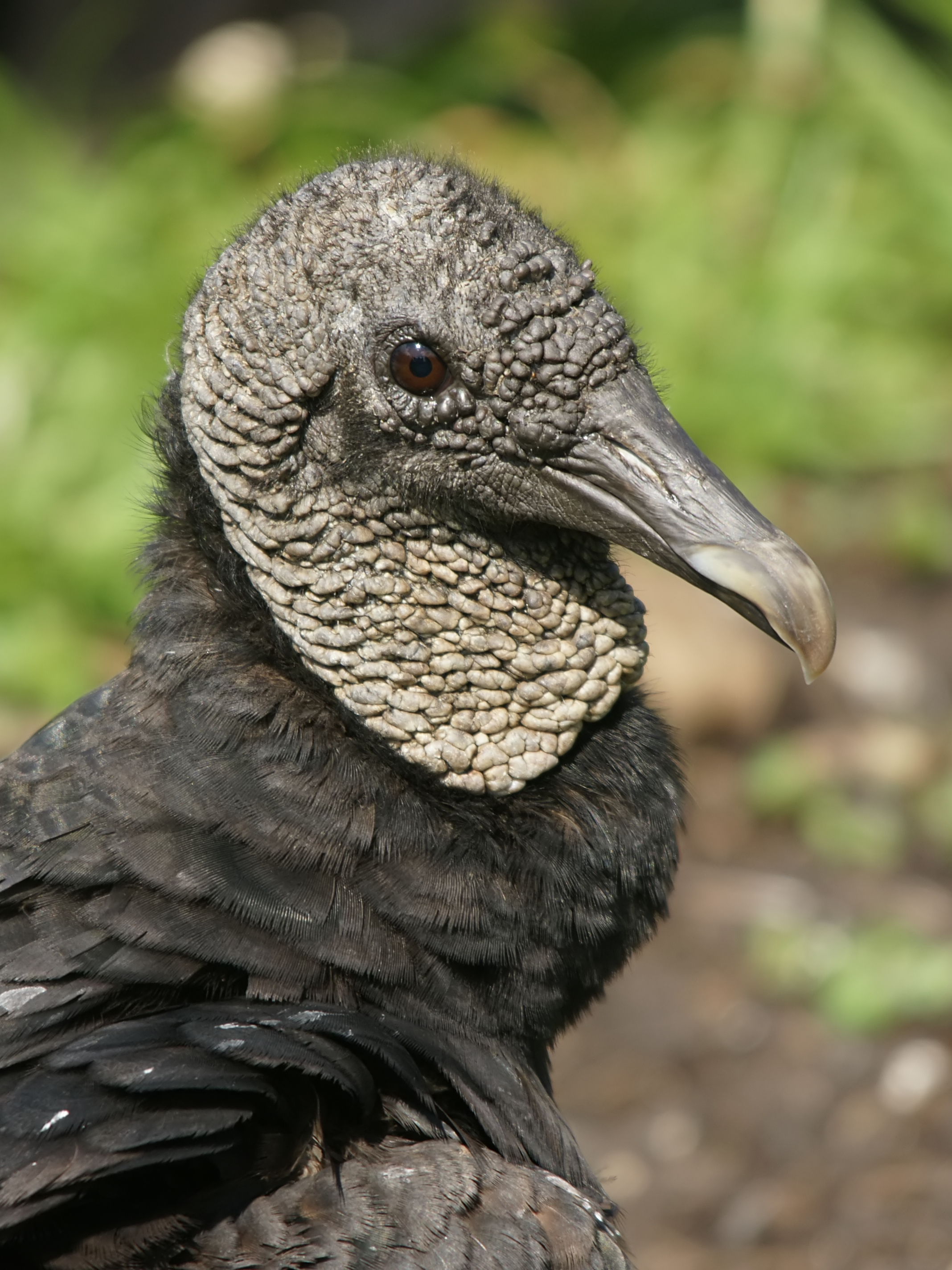 American Black Vulture head at Royal Palm in the Everglades National Park in Miami-Dade County, Florida, U.S.A.